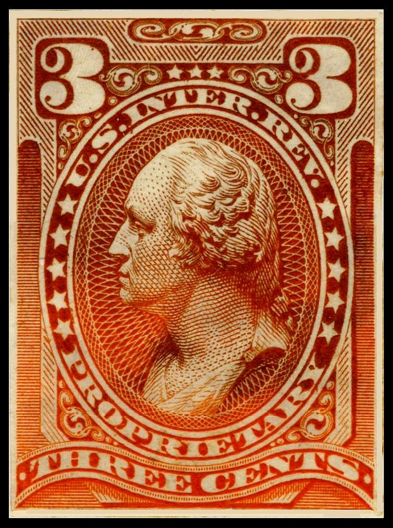 Image of Washington 3c Proprietary revenue stamp, issue of 1875